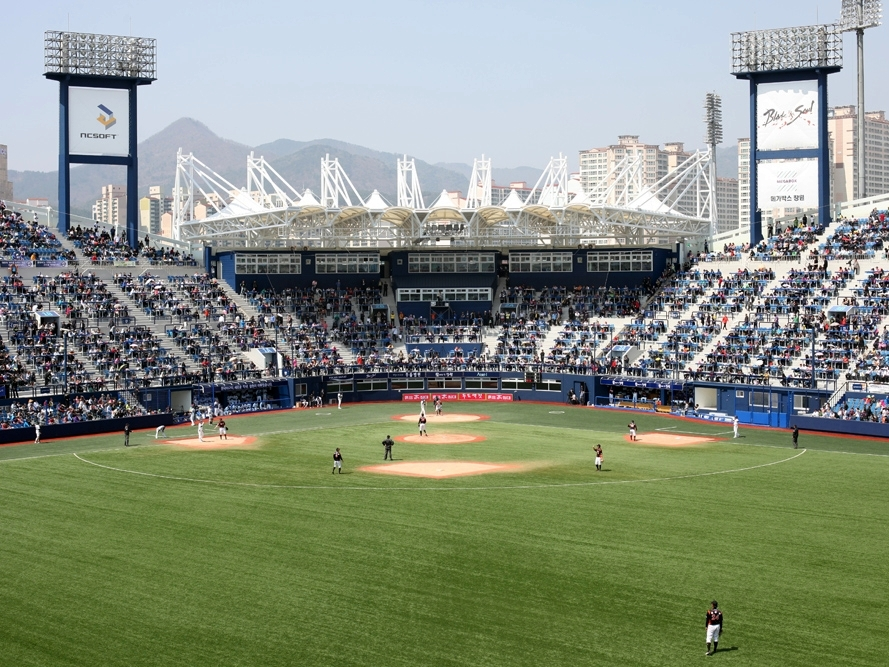 Masan Baseball Park